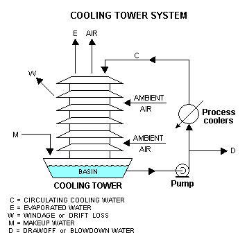 Cooling tower schematic